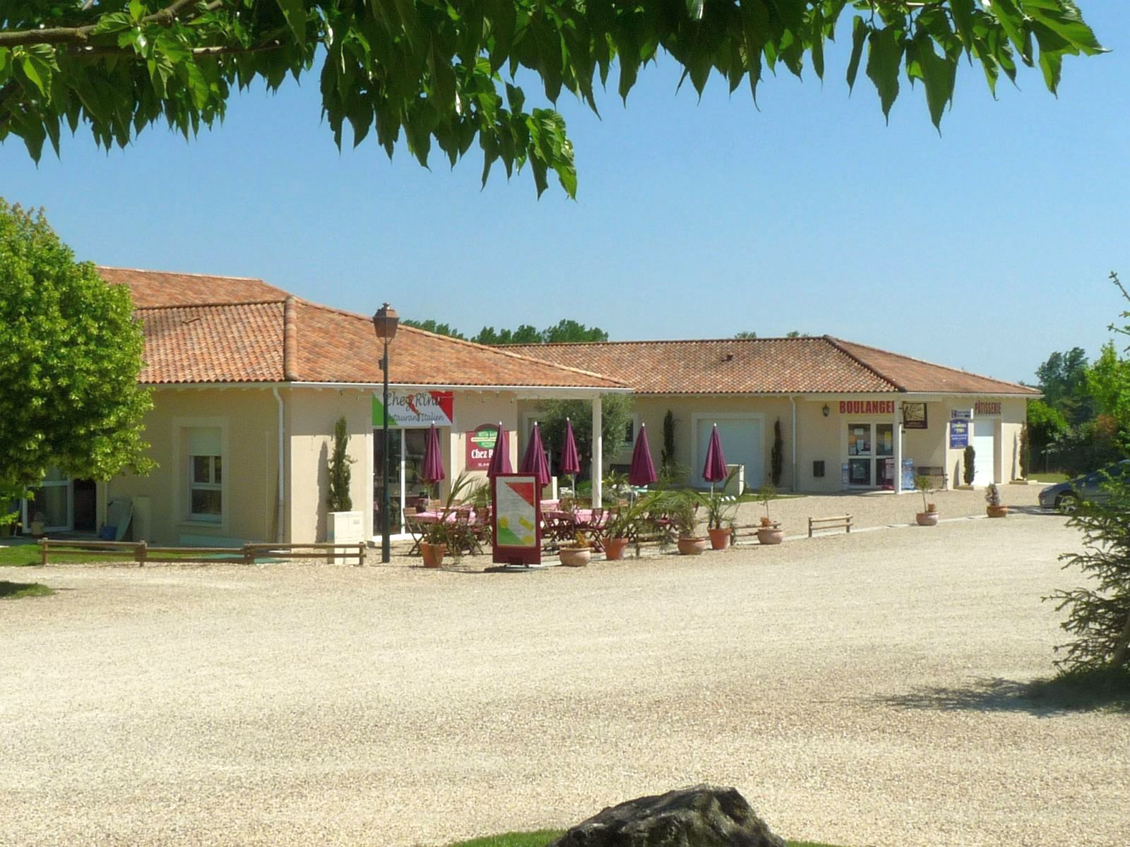 shops at Bonnes, Charente, SW France